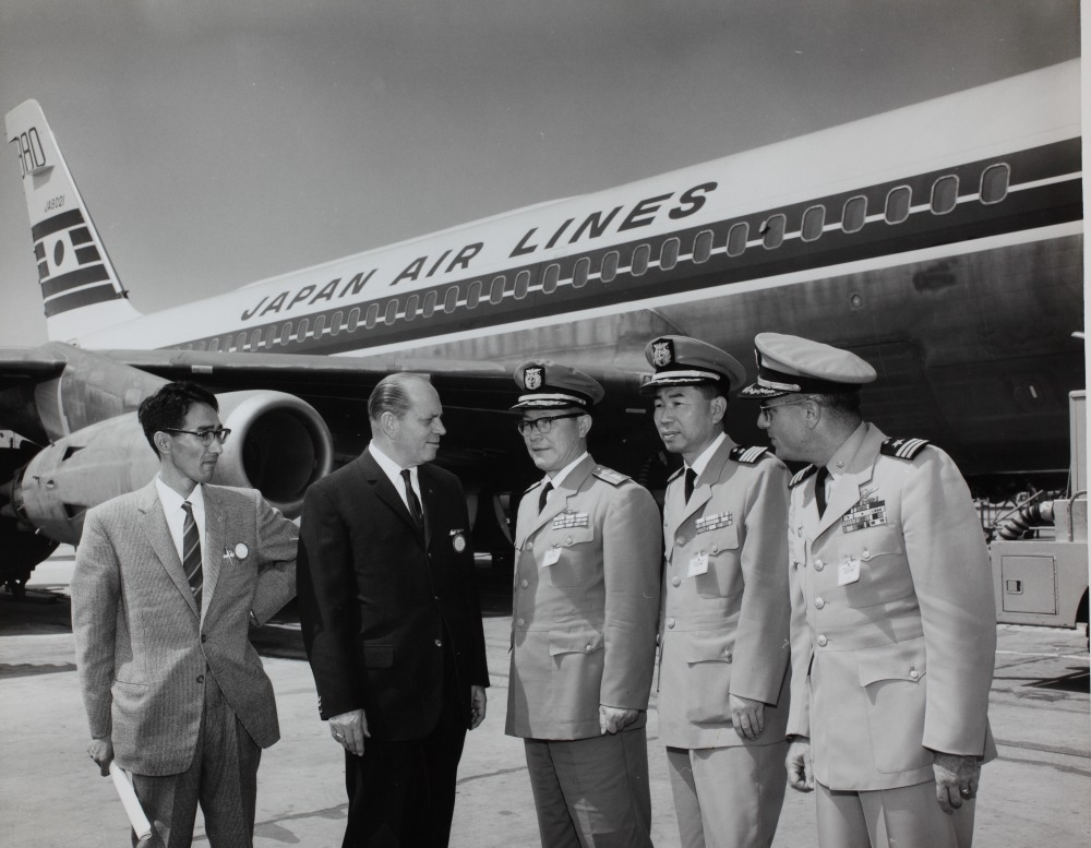 PictionID:41564792 - Title:Joseph Famme Collection Image - Catalog:Joseph Famme Collection_00102 - Filename:Joseph Famme Collection_00102.TIF - Famme (1911-2004) was a prominent contributor to the growth of the aerospace industry, especially in San Diego. He was an engineering and manufacturing executive at Convair, first joining Consolidated Aircraft in 1936. He was an exexutive at Rohr after his Convair retirement in 1966.---PLEASE TAG this image with any information you know about it, so that we can permanently store this data with the original image file in our Digital Asset Management System.----SOURCE INSTITUTION: San Diego Air and Space Museum